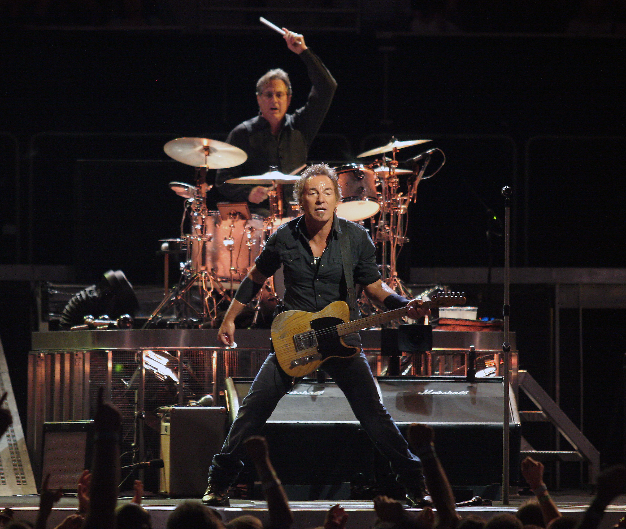 Bruce Springsteen (with Max Weinberg in background on drums) in concert